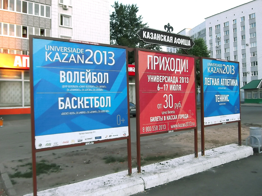 streets playbill of 2013 Summer Universiade in Kazan